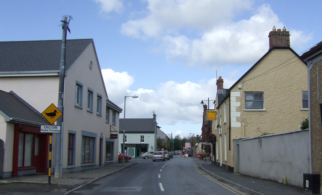 Sixmilebridge A busy village at the hub of five regional roads in eastern Co. Clare.